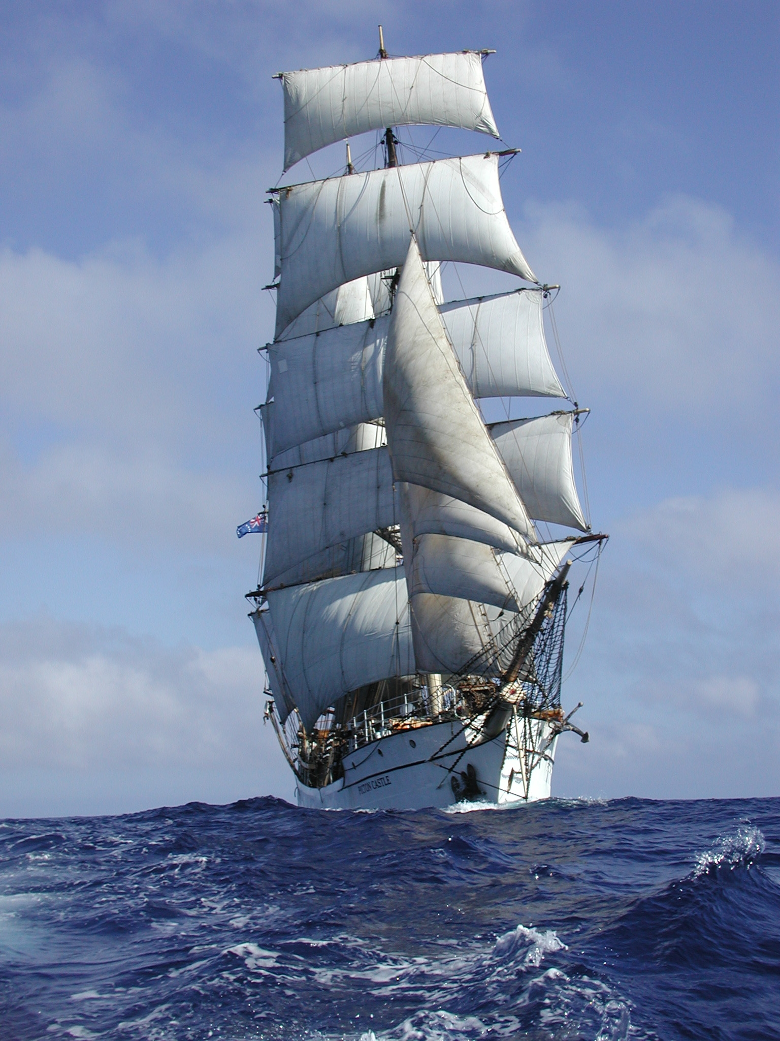 The Picton Castle Under Full Sail IMO Number: 5375010 MMSI Number: 518000019 Callsign: E5WP Length: 37 m Beam: 8 m